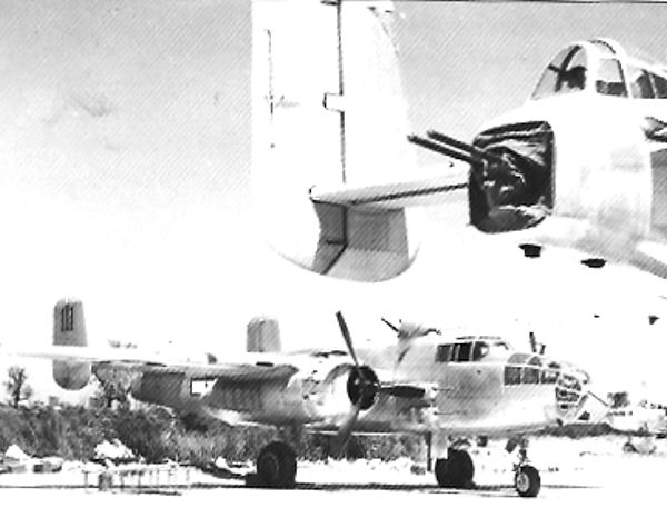 B-25J-10 43-27425, "111". 447th Bombardment Squadron, 321st Bombardment Group, Solenzara Airfield, Corsica in late 1944. On 11 November this aircraft was part of an 18 aircraft formation which attacked three enemy troop convoys and dropped fragmentation bombs on them while attempting to move though the Brenner Pass. The aircraft was hit by ground fire and about 60% of its right vertical tail was blown off. However the Mitchell was able to return to its base on Corsica with only a single working rudder. (USAAF Photo)